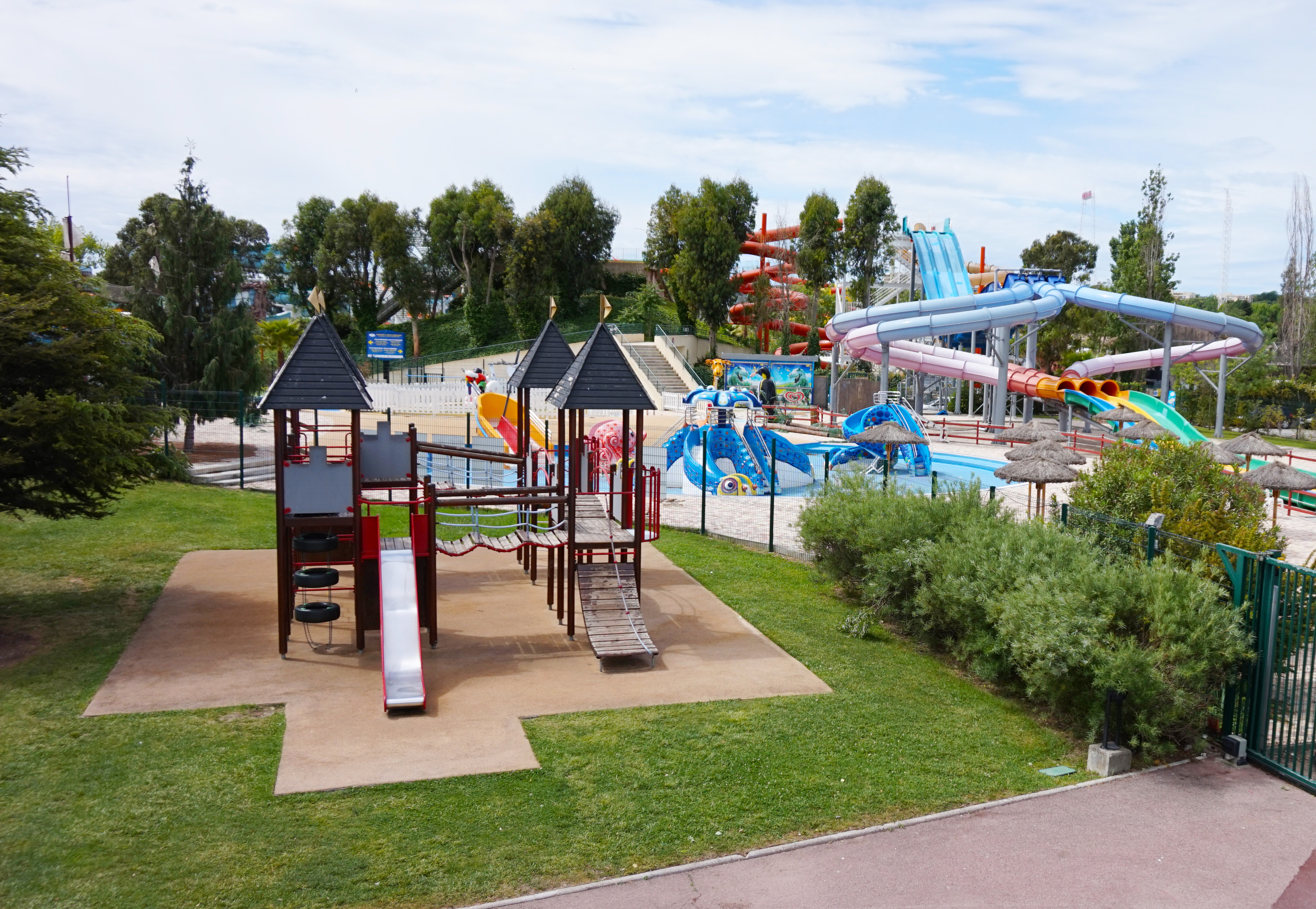 Playground in Marineland, Antibes.This photograph was taken with a Sony ILCE-5000